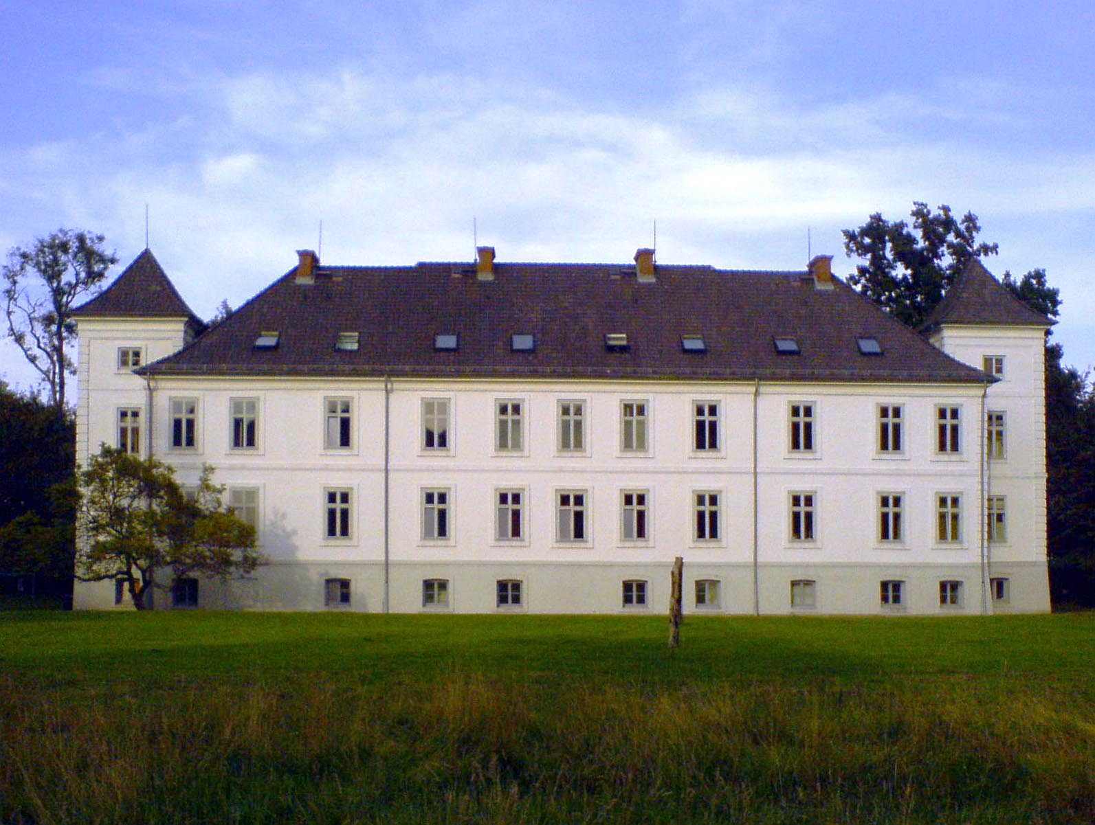 Noer Manor